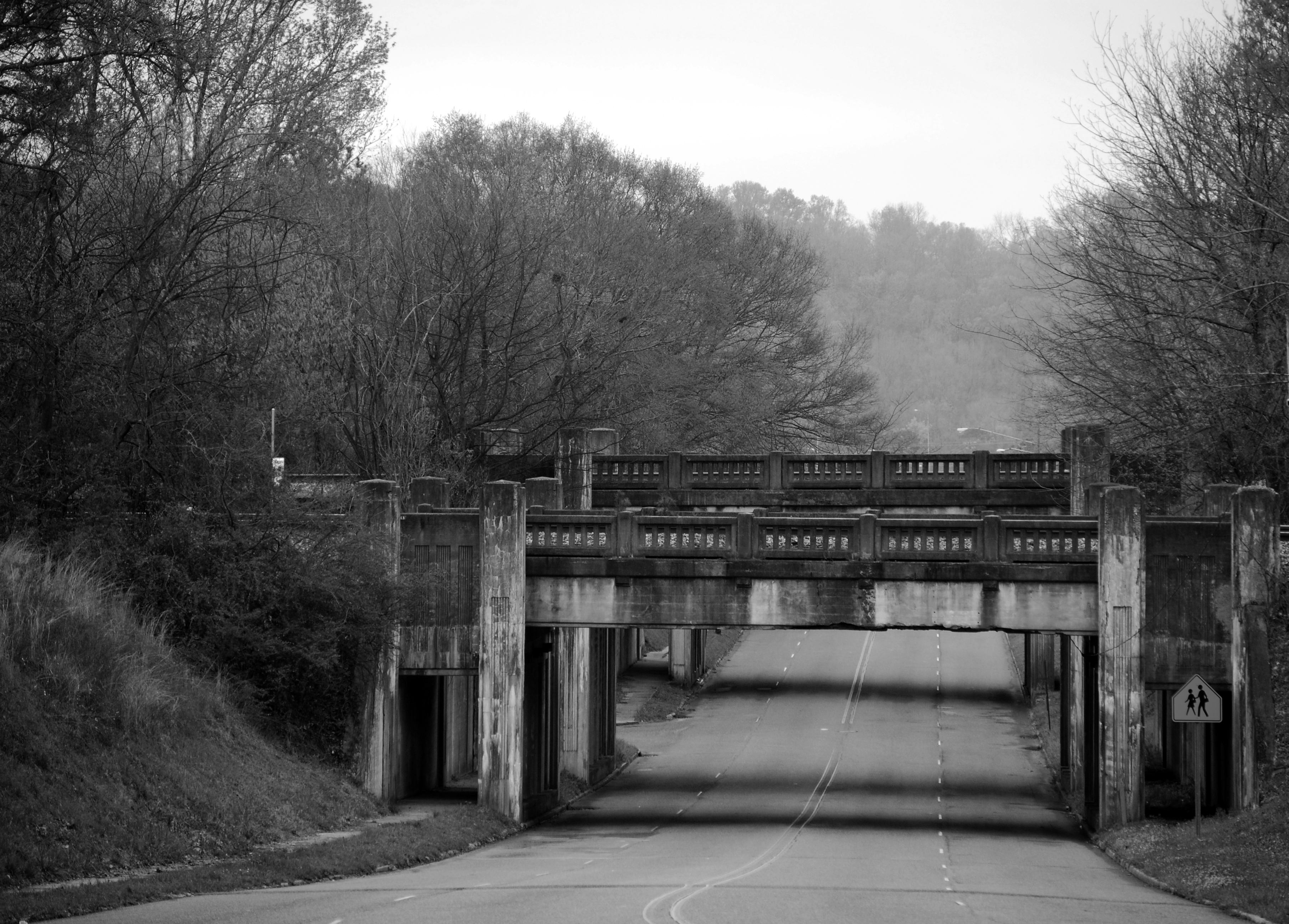 An Irondale bridge